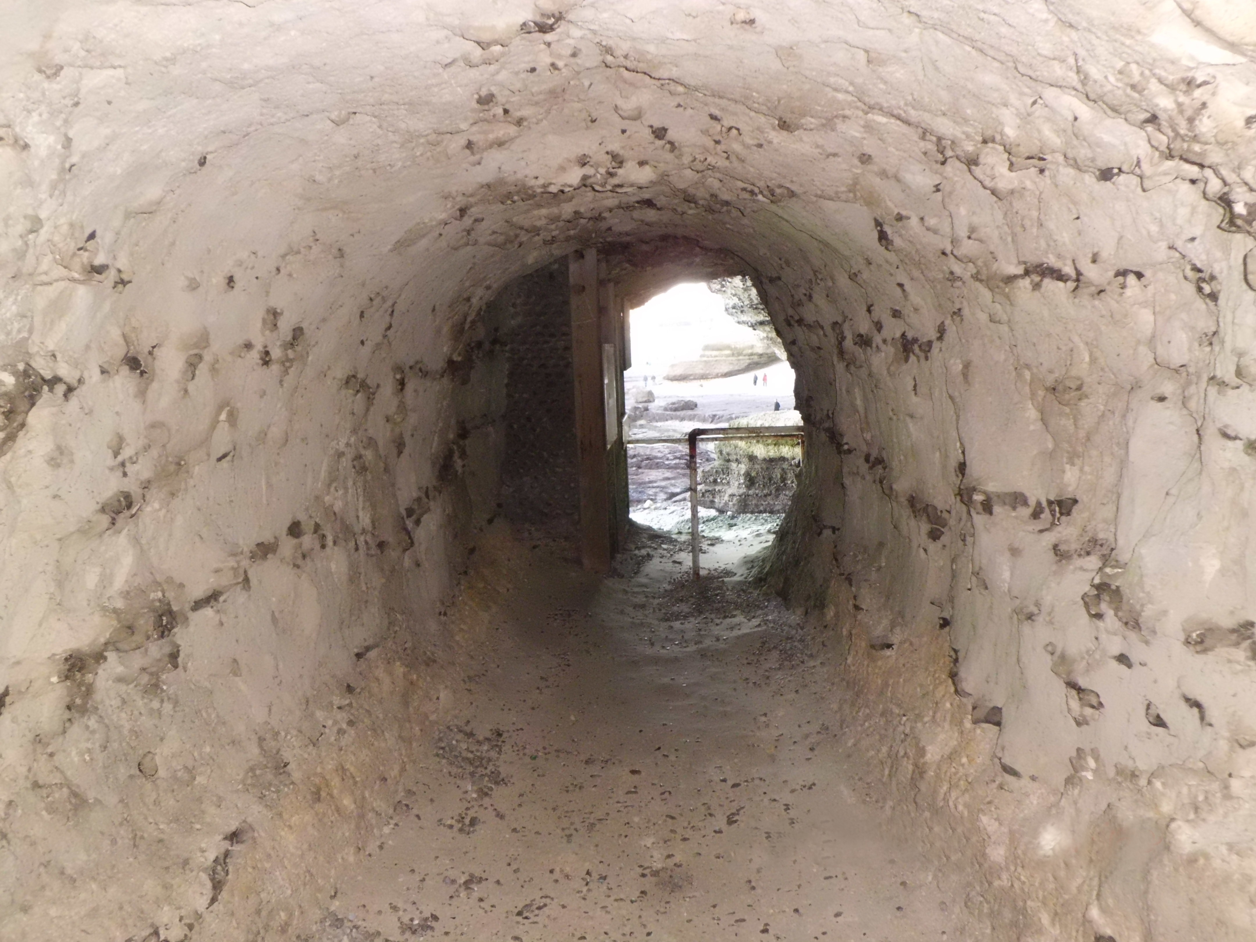 Beach underground at Etretat (Normandy)